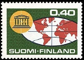 UNESCO 20 years anniversary - Finnish stamp